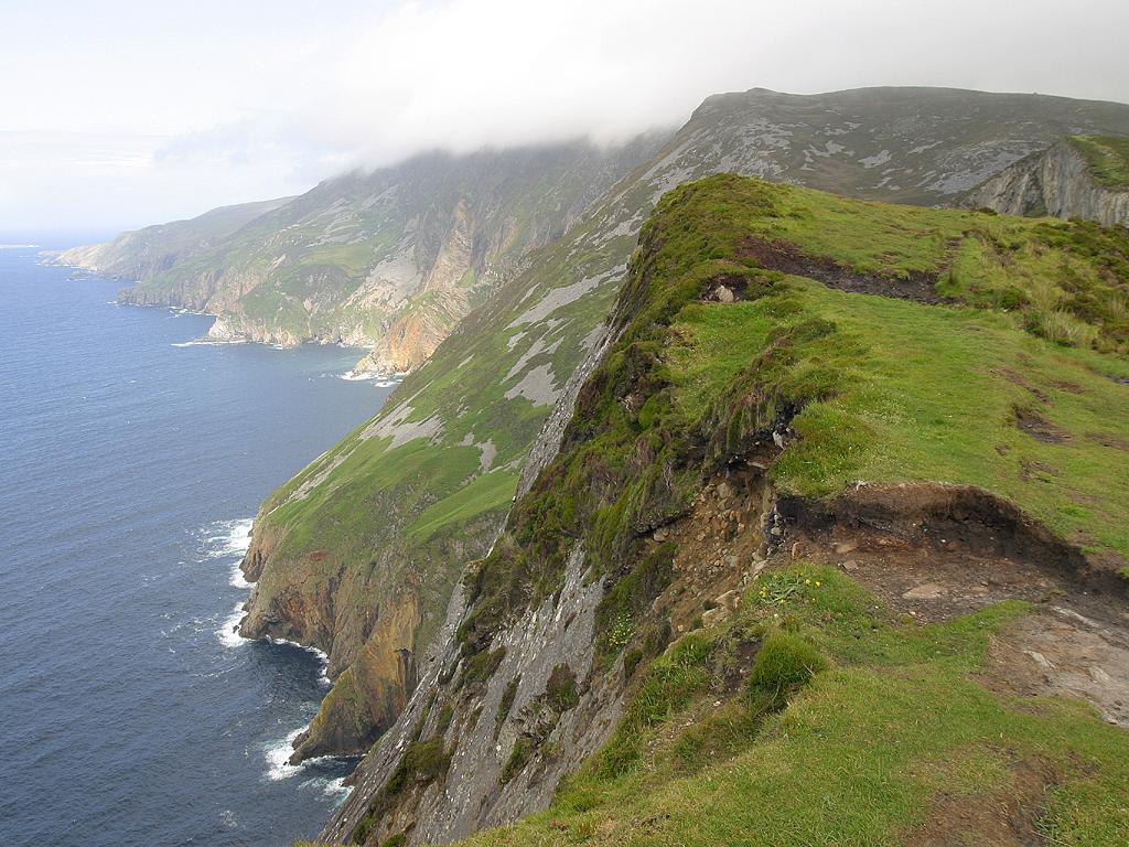 Cliffs of Slieve League, County Donegal, Ireland